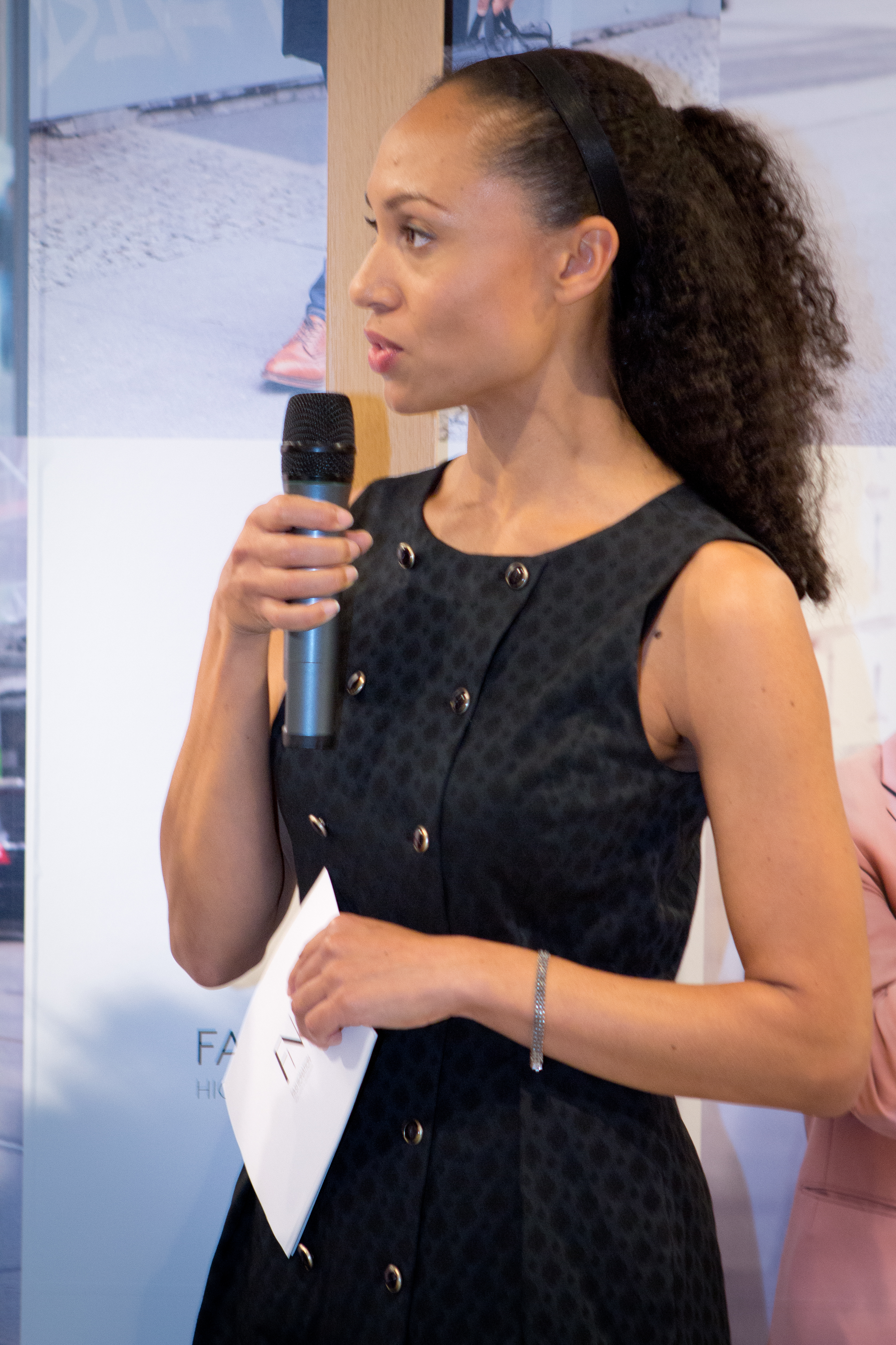 Yasmine Blair 2013